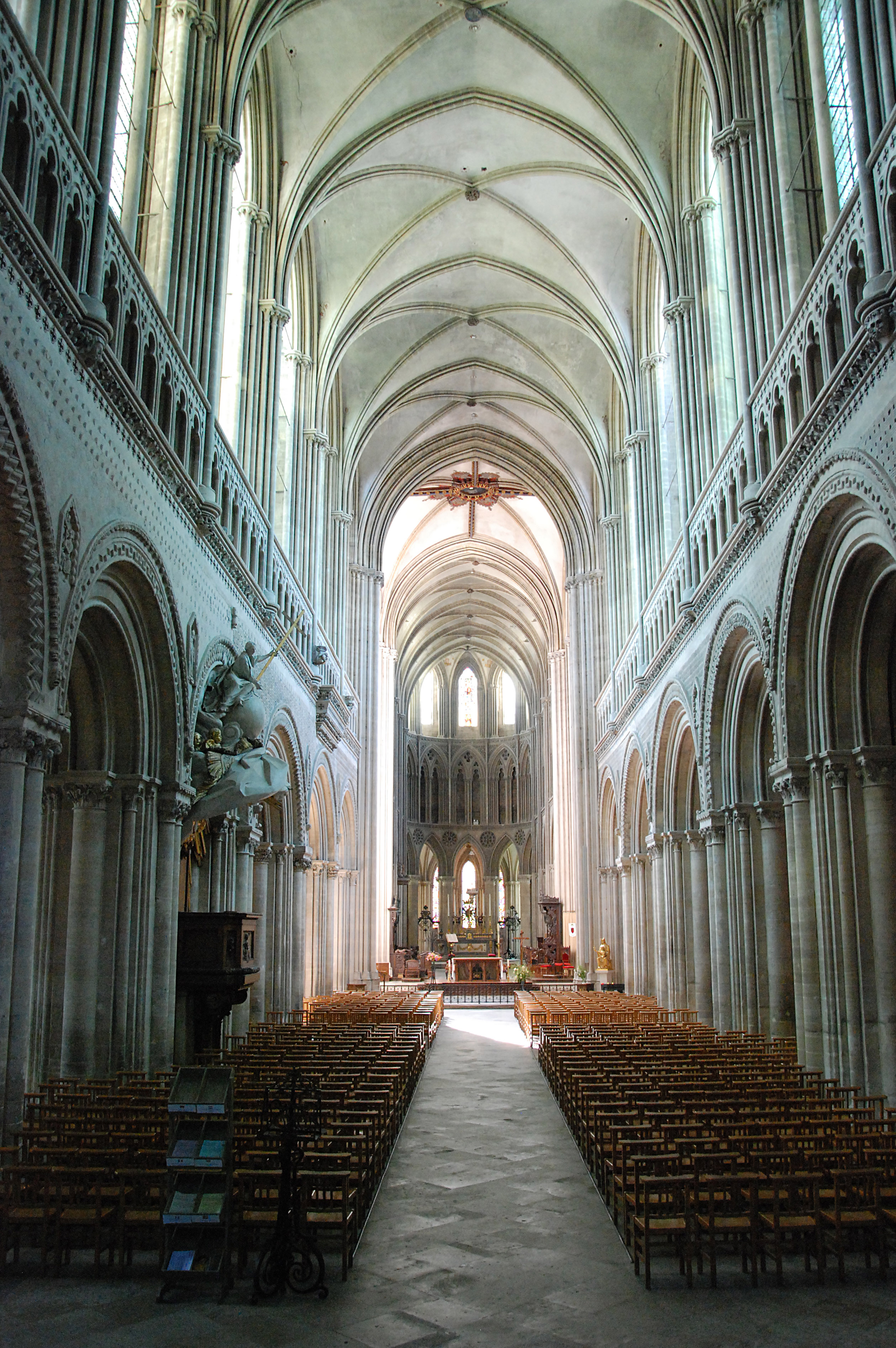 Nave of Cathédrale Notre-Dame de Bayeux